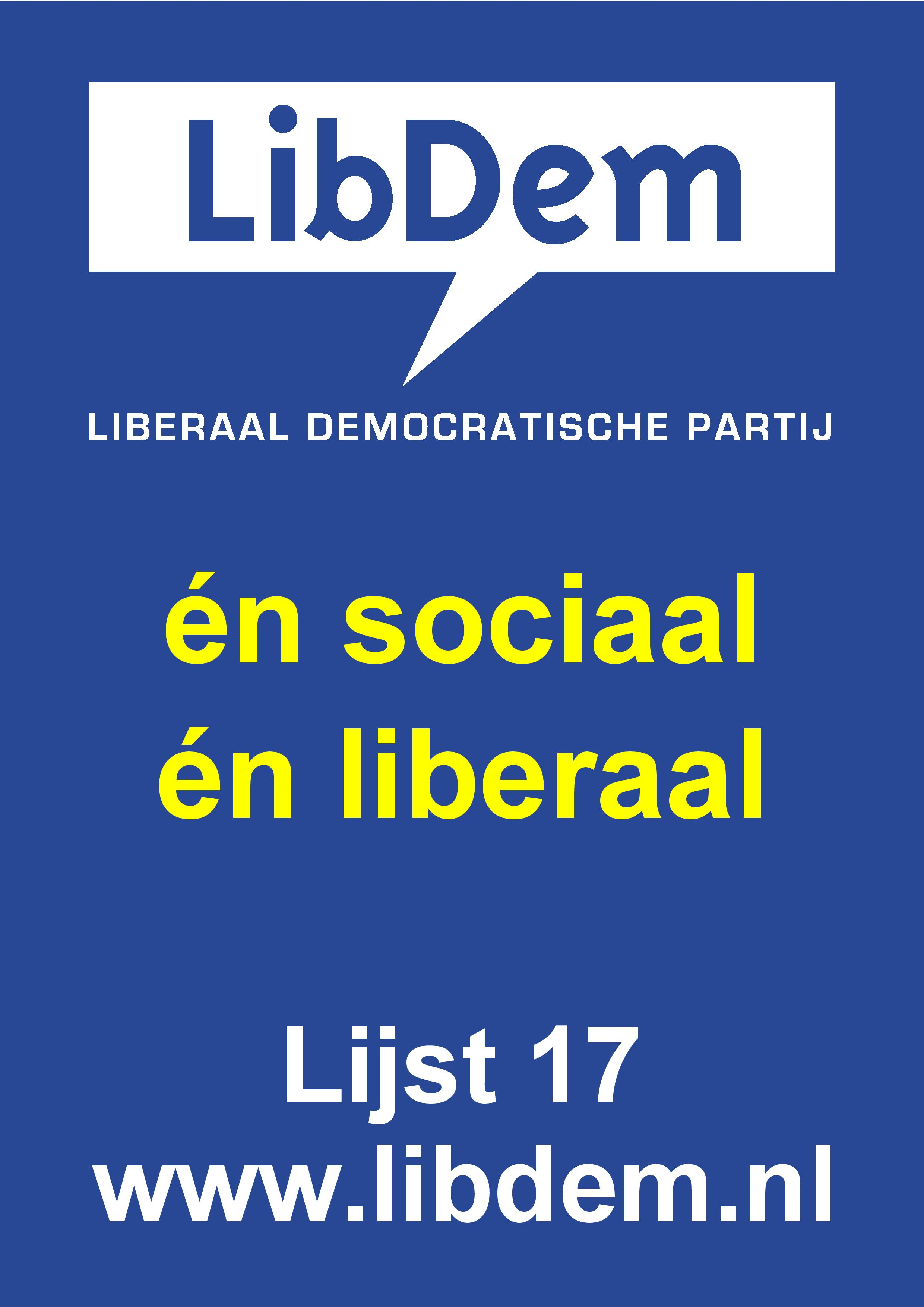 LibDem election poster in de 2012 Dutch general elections